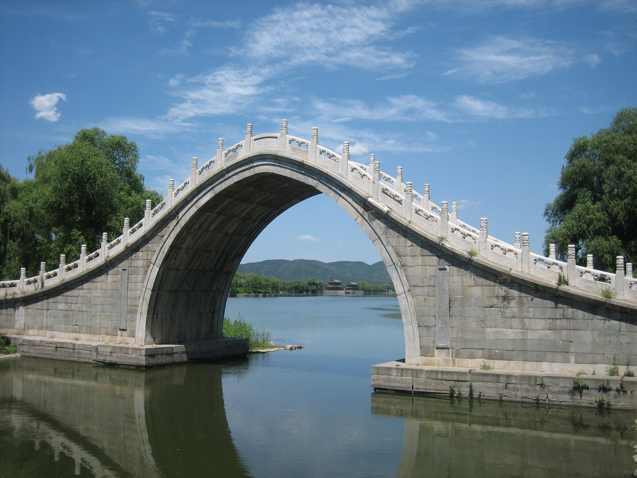 北京颐和园的高梁桥。 Gaoliang Bridge of The Summer Palace.